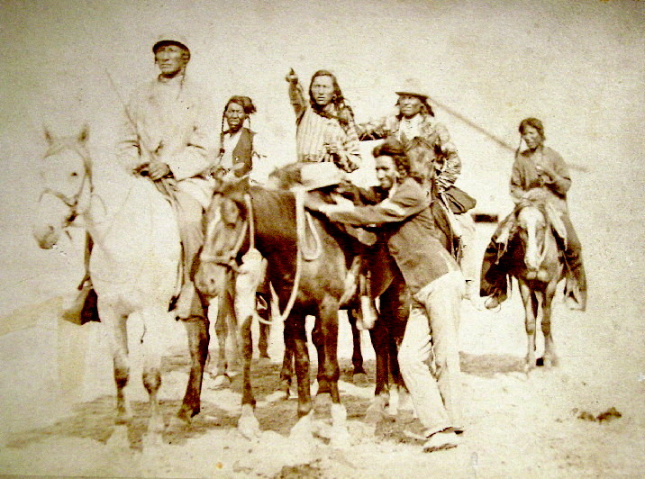 Crow Indians mounted on horseback